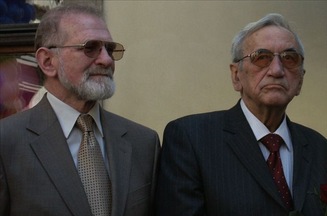 Bronisław Geremek (1932-2008), Polish historian and politician and Tadeusz Mazowiecki (1927-2013), Polish publicist, journalist and politician